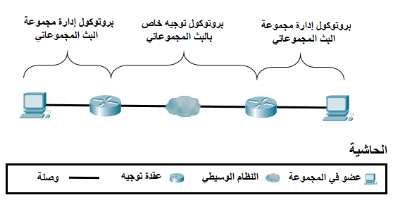 The relationship between the multicast group management protocol family and the multicast routing protocols family based on the network topology terms.